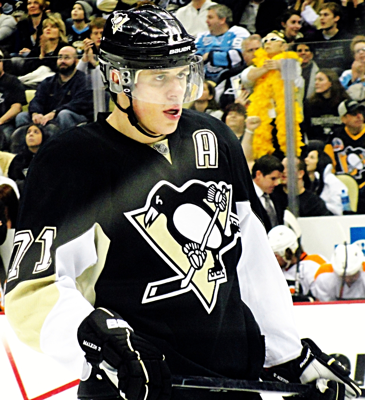 Pittsburgh Penguins center Evgeni Malkin skates against the Philadelphia Flyers in a December 29, 2011 game at Consol Energy Center in Pittsburgh, PA.